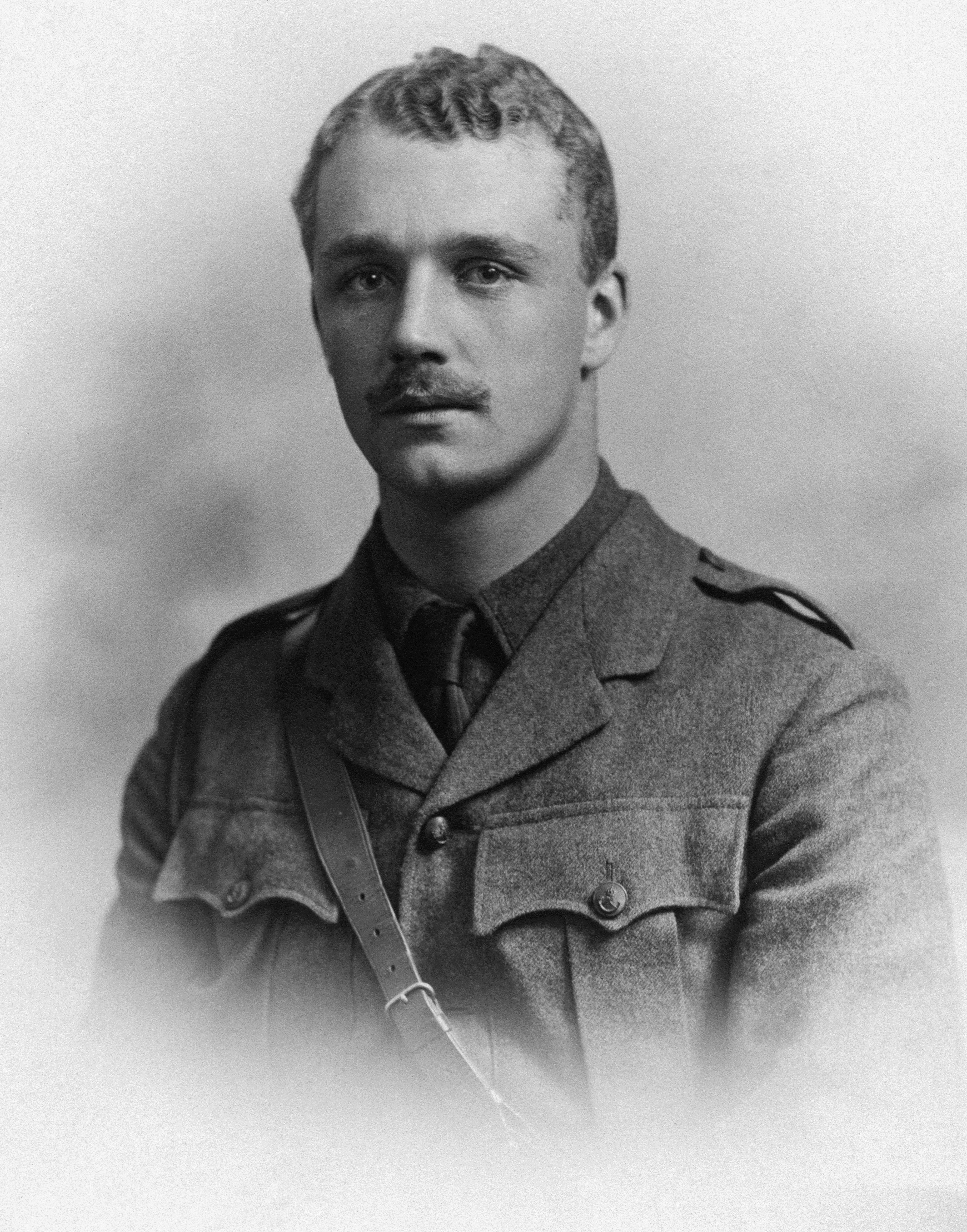 World War I image of Captain R. V. C. Bodley (see discussion of his unit and career in Flickr commentary and notes)